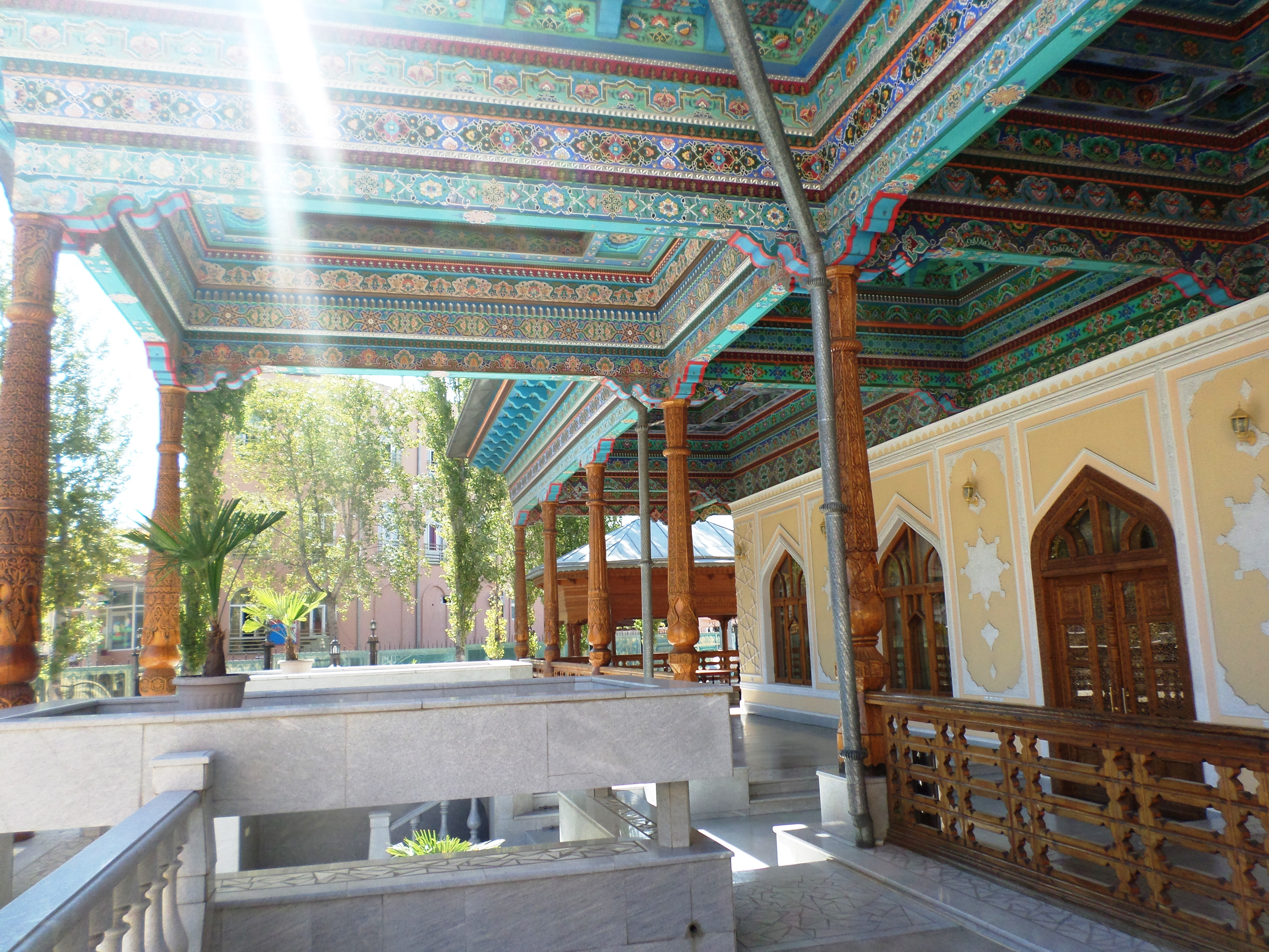 The building teahouse in Khujand, Tajikistan,(Interior)